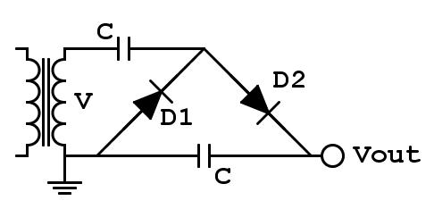 One stage Cockroft-Walton multiplier. Plotted with FidocadJ.